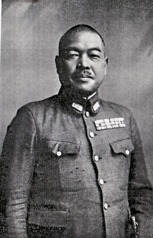 HARADA Kumakichi (1888 - 1947)